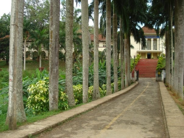 Tholangamuwa Central College